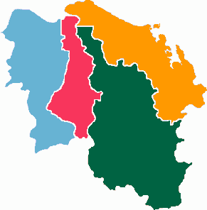 Subdivision of Haikou